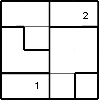 Unsolved Country Road puzzle